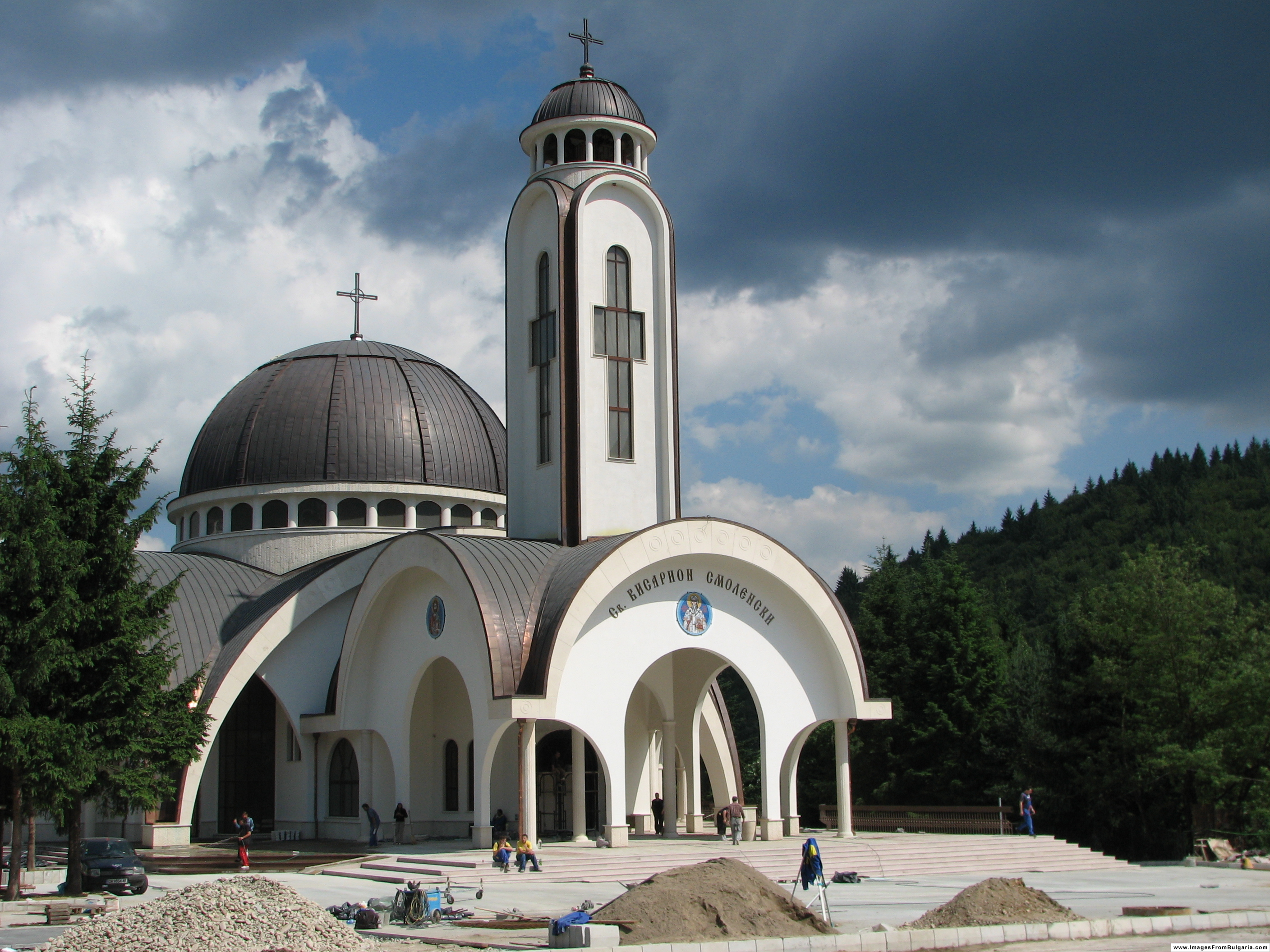 Cathedral of Saint Vissarion of Smolyan, Bulgaria